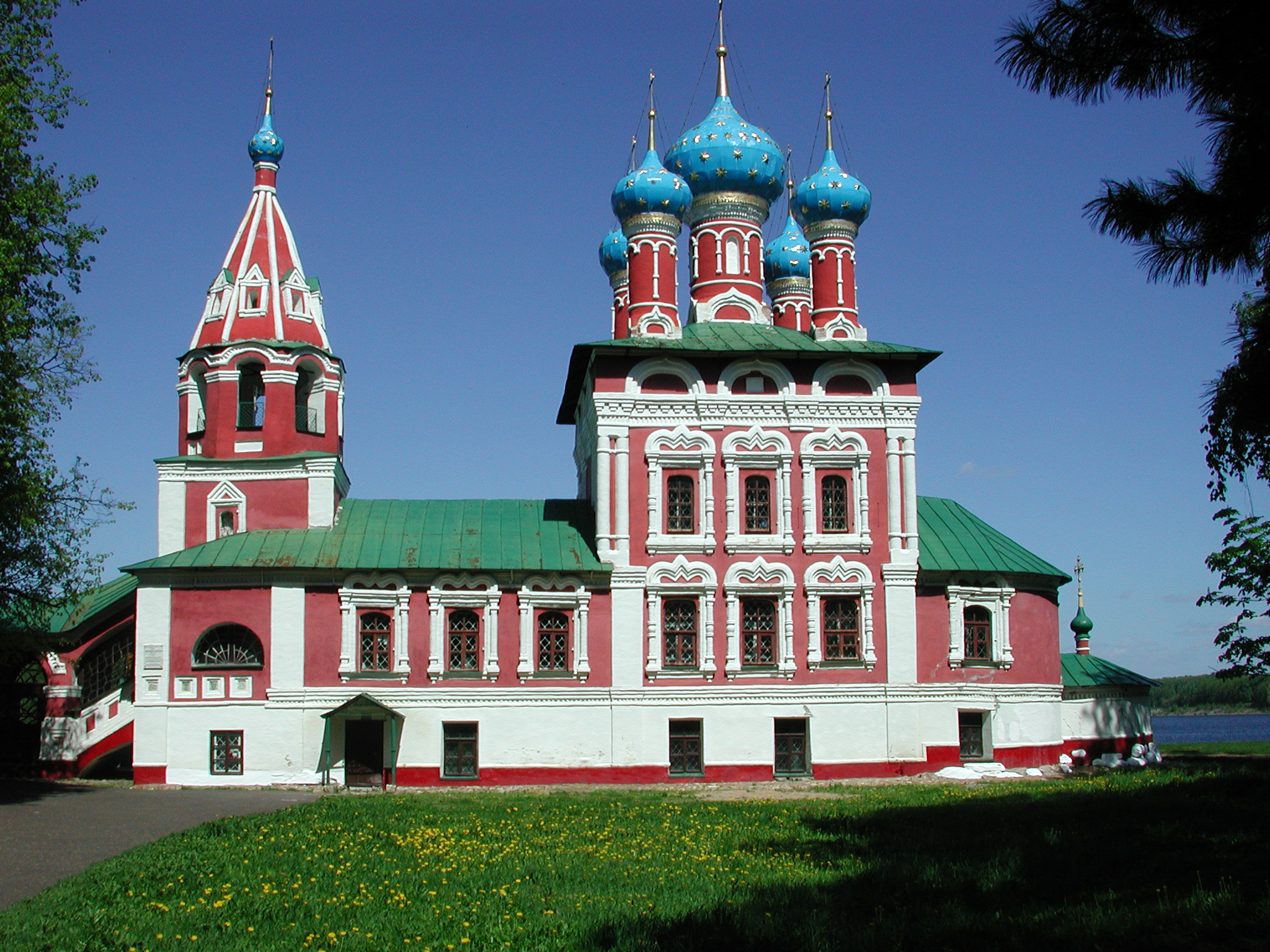 Church of Tsarevich Dimitriy on the blood, Uglich, Yaroslavl Oblast